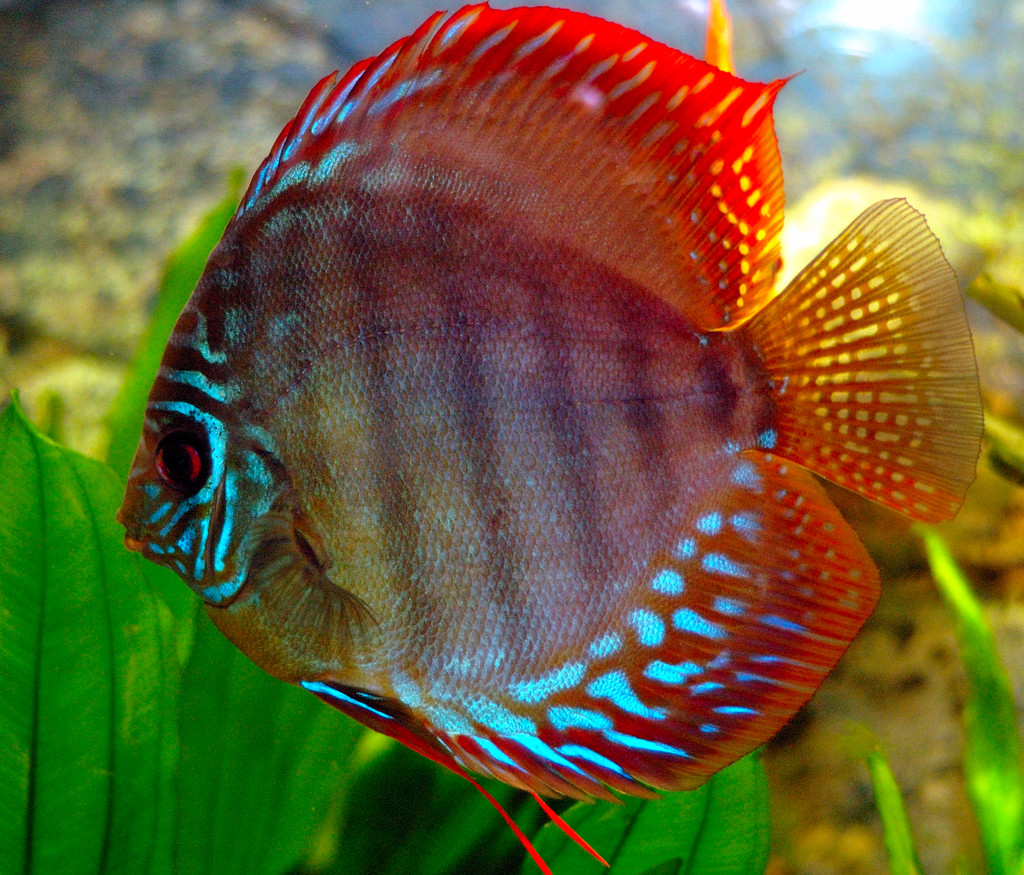 a fish of the genus Symphysodon